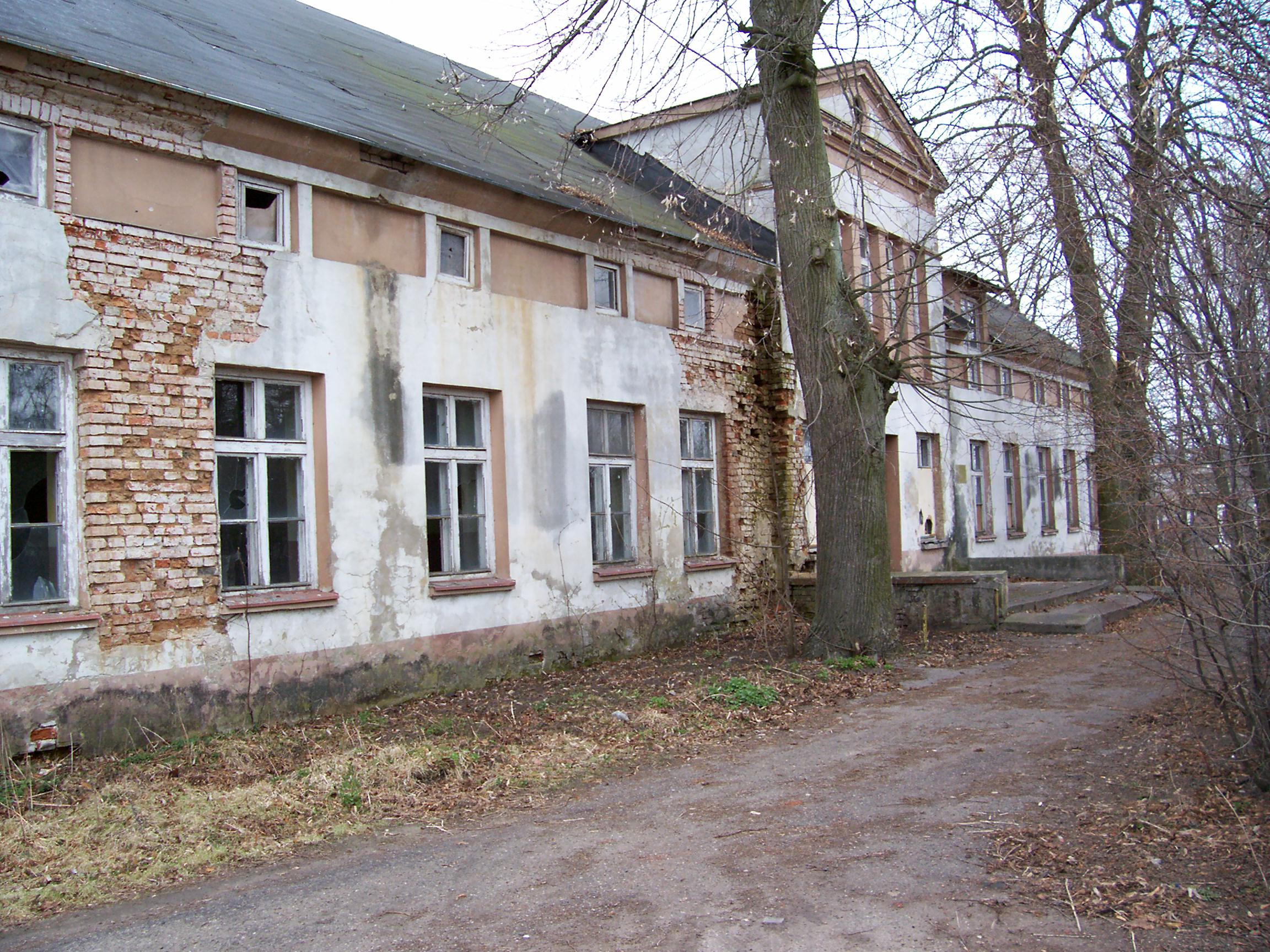 Manor house in Jagodne Małe, Poland